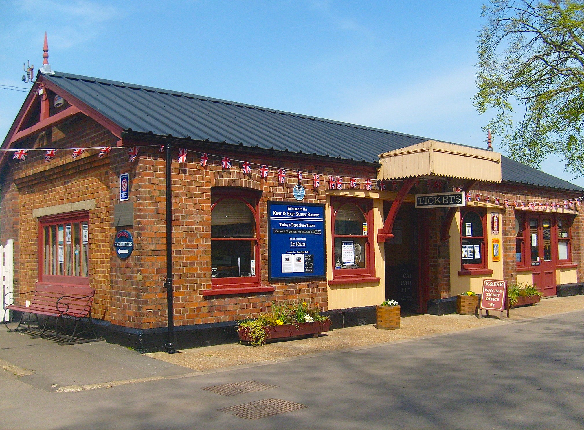 Tenterden Town Station Building on the Kent and East Sussex Railway